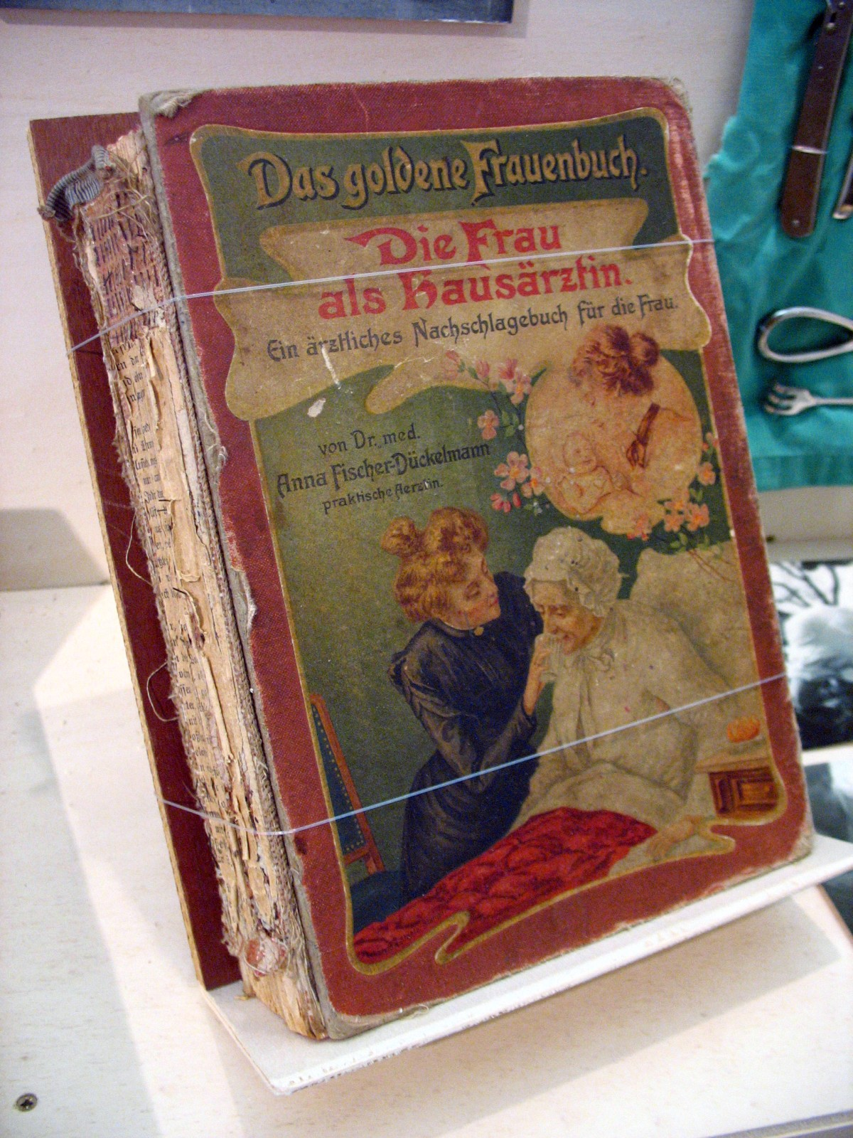 Damaged spine and front cover of the book Die Frau als Hausärztin (“woman as family doctor”) by Anna Fischer-Dückelmann (1856-1917)